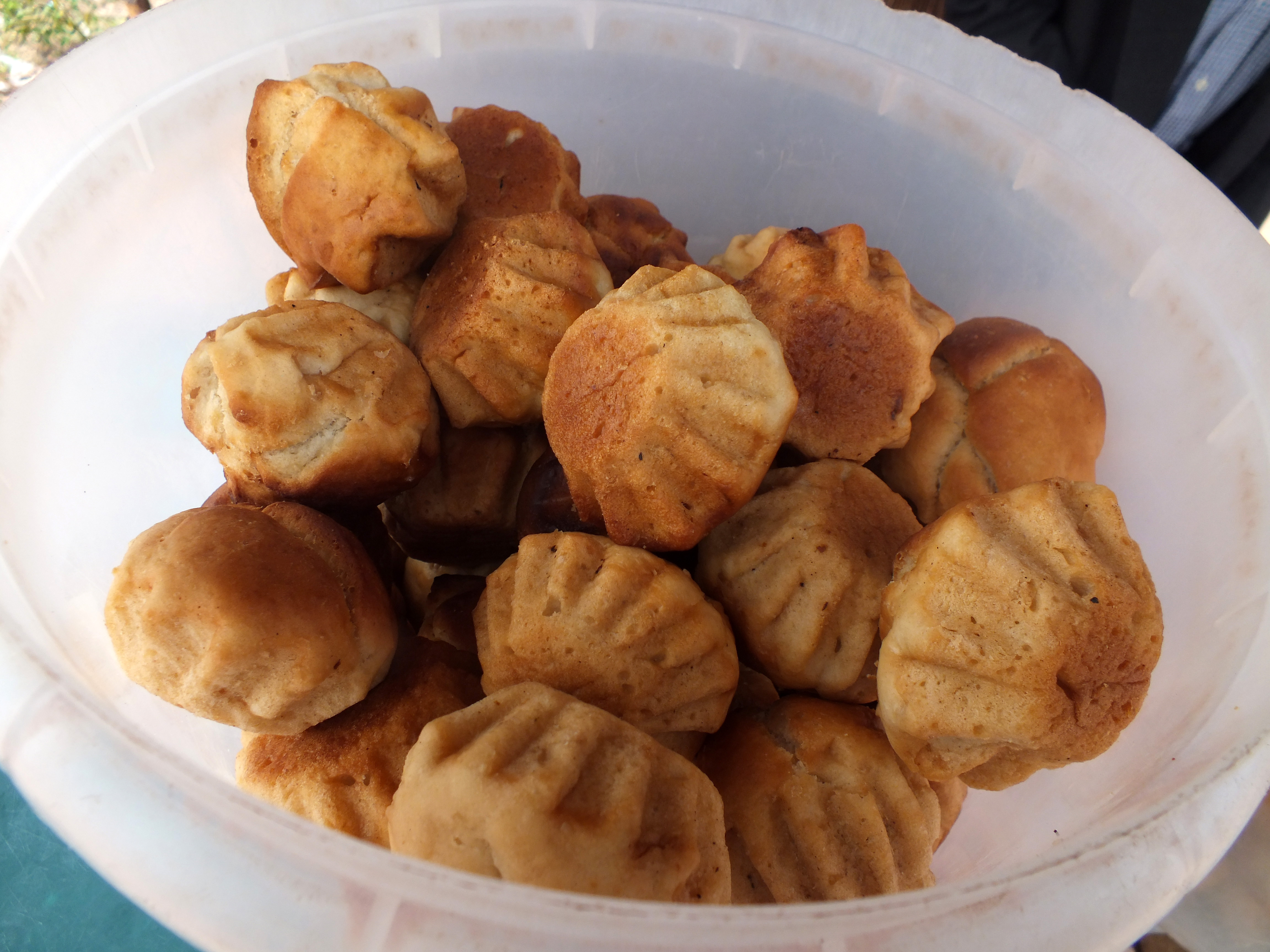 Back to Lake Tanganyika. Fresh mandazi (plural; singular: andazi). You're most lucky and happy when you get them hot!